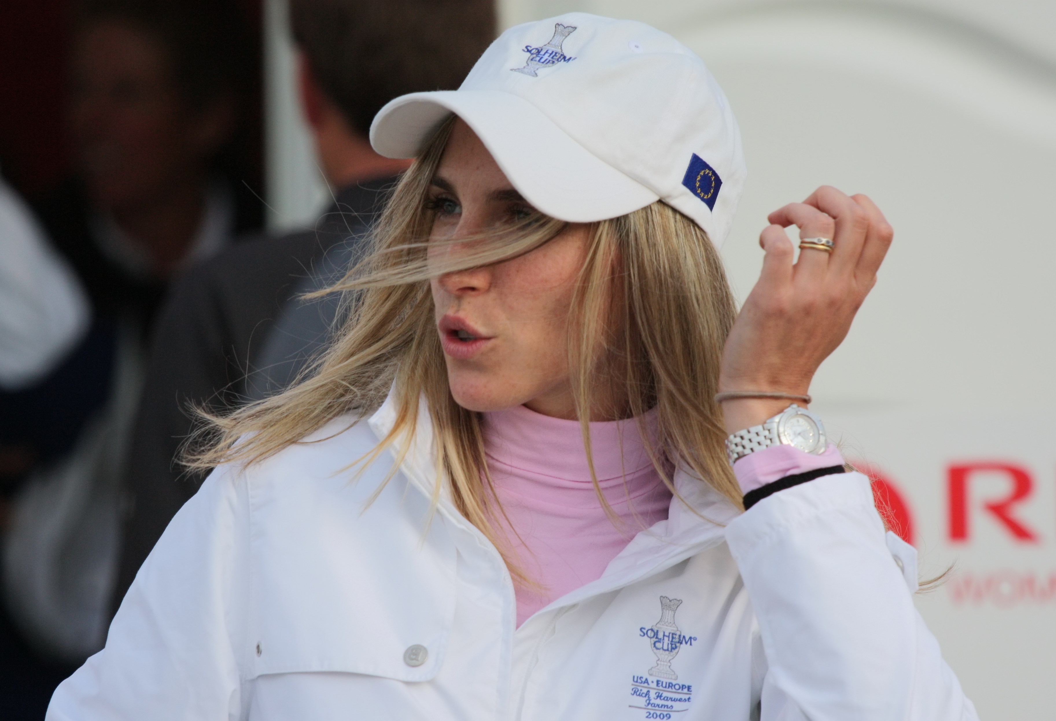 LYTHAM ST ANNES, UNITED KINGDOM - AUGUST 02: Diana Luna of Italy exits the media tent after anouncement of 2009 Solheim Cup squads after 2009 Ricoh Women's British Open held at Royal Lytham & St Annes on August 2, 2009 in Lytham St Annes, England. (Photo by Wojciech Migda)